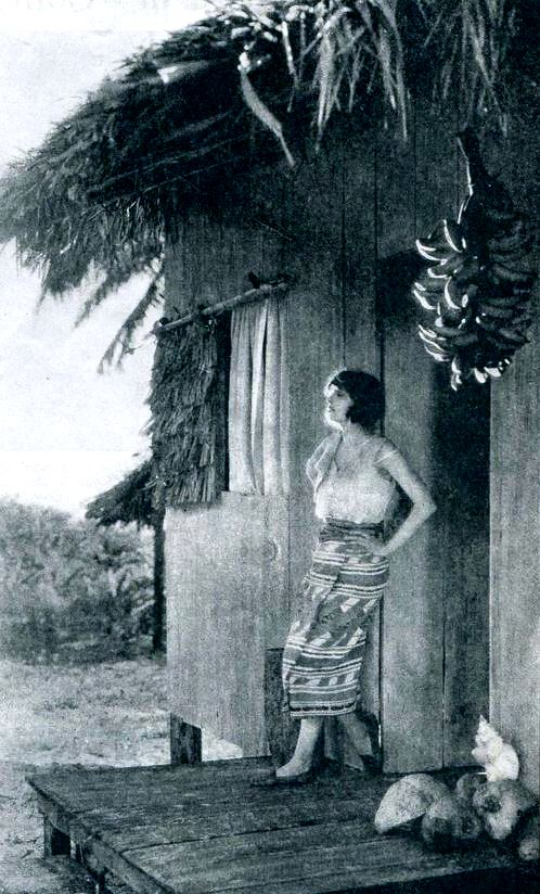 Still from the American adventure drama film Island Wives (1922) with Corinne Griffith, on page 49 of the May 1922 Film Fun.